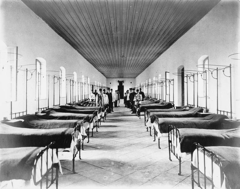 T E Lawrence and the Arab Revolt 1916 - 1918 Hejaz Railway - Interior of the hospital for railway employees at Tebuk. Opening ceremony.